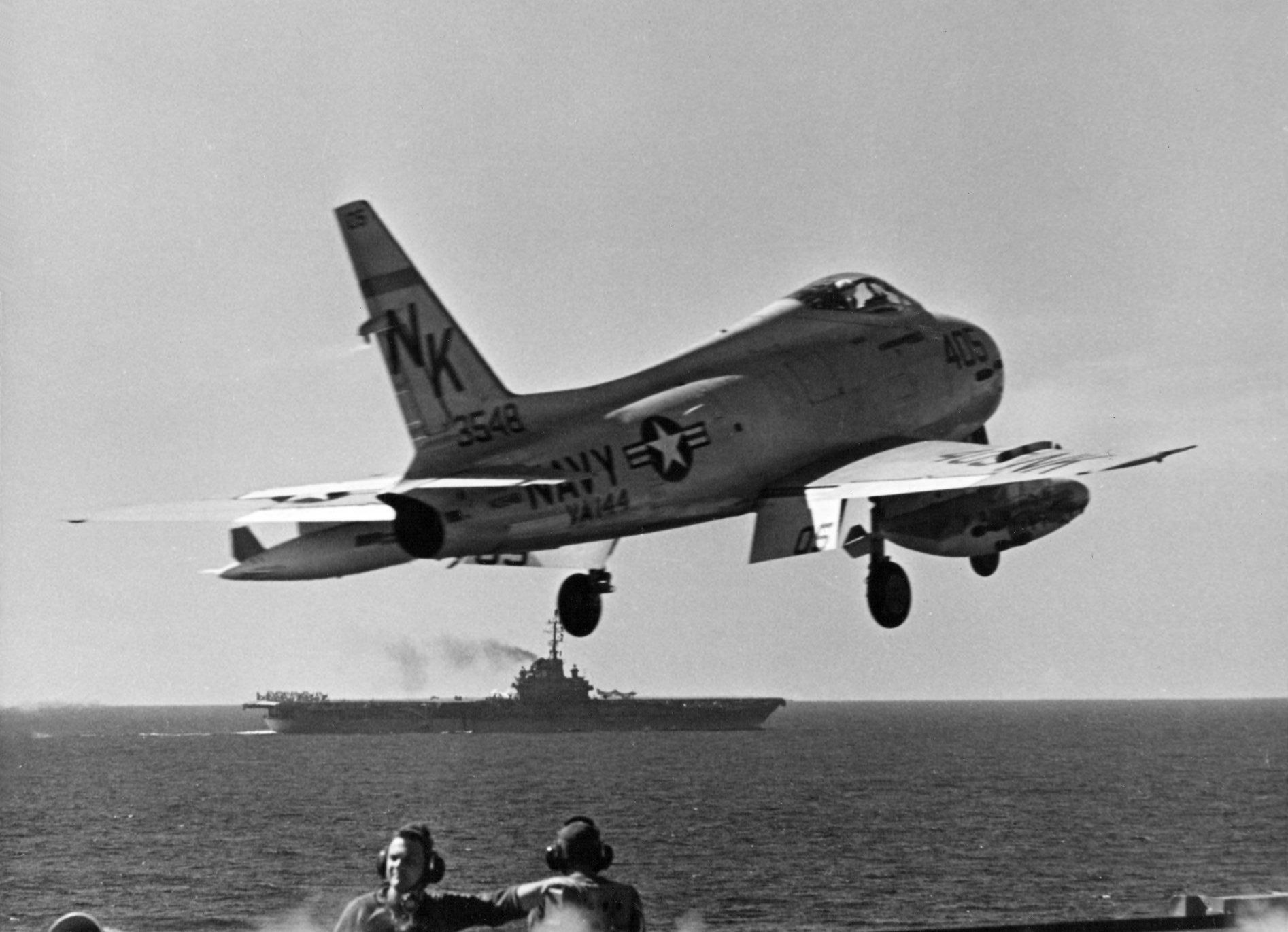 A U.S. Navy North American FJ-4B Fury (BuNo 143548) from Attack Squadron VA-144 Roadrunners taking off from the aircraft carrier USS Ranger (CVA-61) off Japan on 6 July 1959. VA-144 was assigned to Carrier Air Group 14 (CVG-14) aboard the Ranger for a deployment to the Western Pacific from 3 January to 27 July 1959. In the background steams USS Shangri-La (CVA-38), which was deployed with CVG-11 to the Western Pacific from 9 March to 3 October 1959.